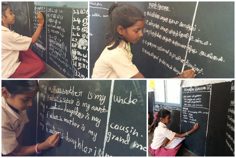 low level blackboard